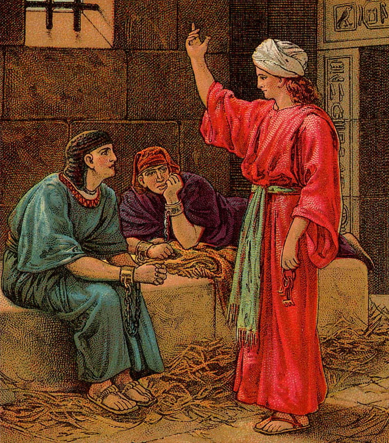 Joseph Faithful in Prison, as in Genesis 39:20-40:15, illustration from a Bible card published by the Providence Lithograph Company